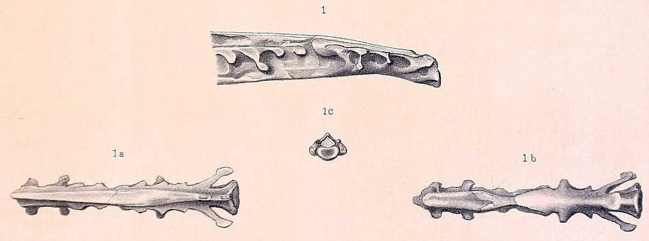 Apatornis celer holotype synsacrum. Odontornithes: a monograph on the extinct toothed birds of North America;. Washington :Govt. print. off.,1880..